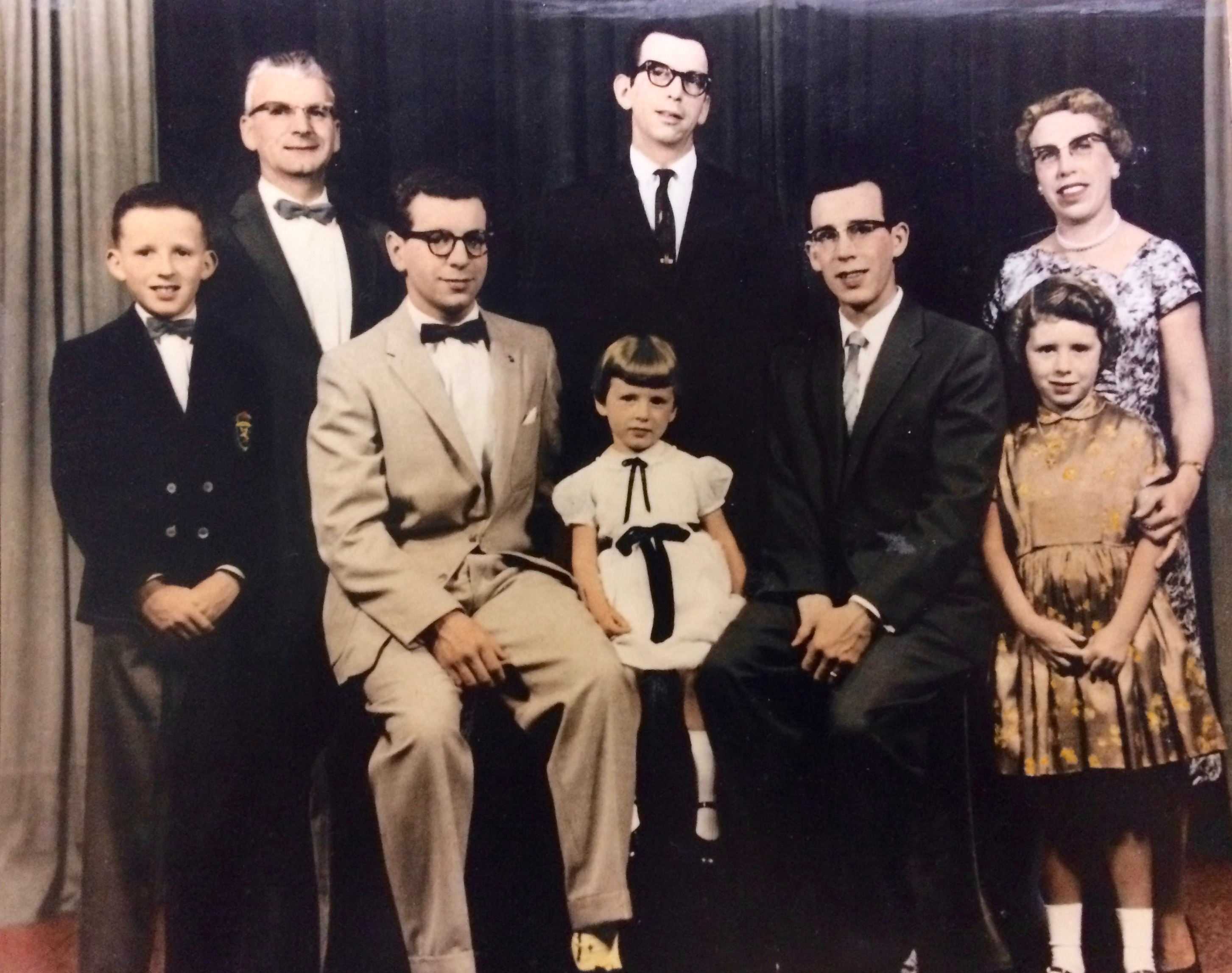 Côté family portrait taken in 1960. From left to right: Bernie, Henri, Raymond, Thérèse, Richard, Robert, Lorraine and Marie Côté.